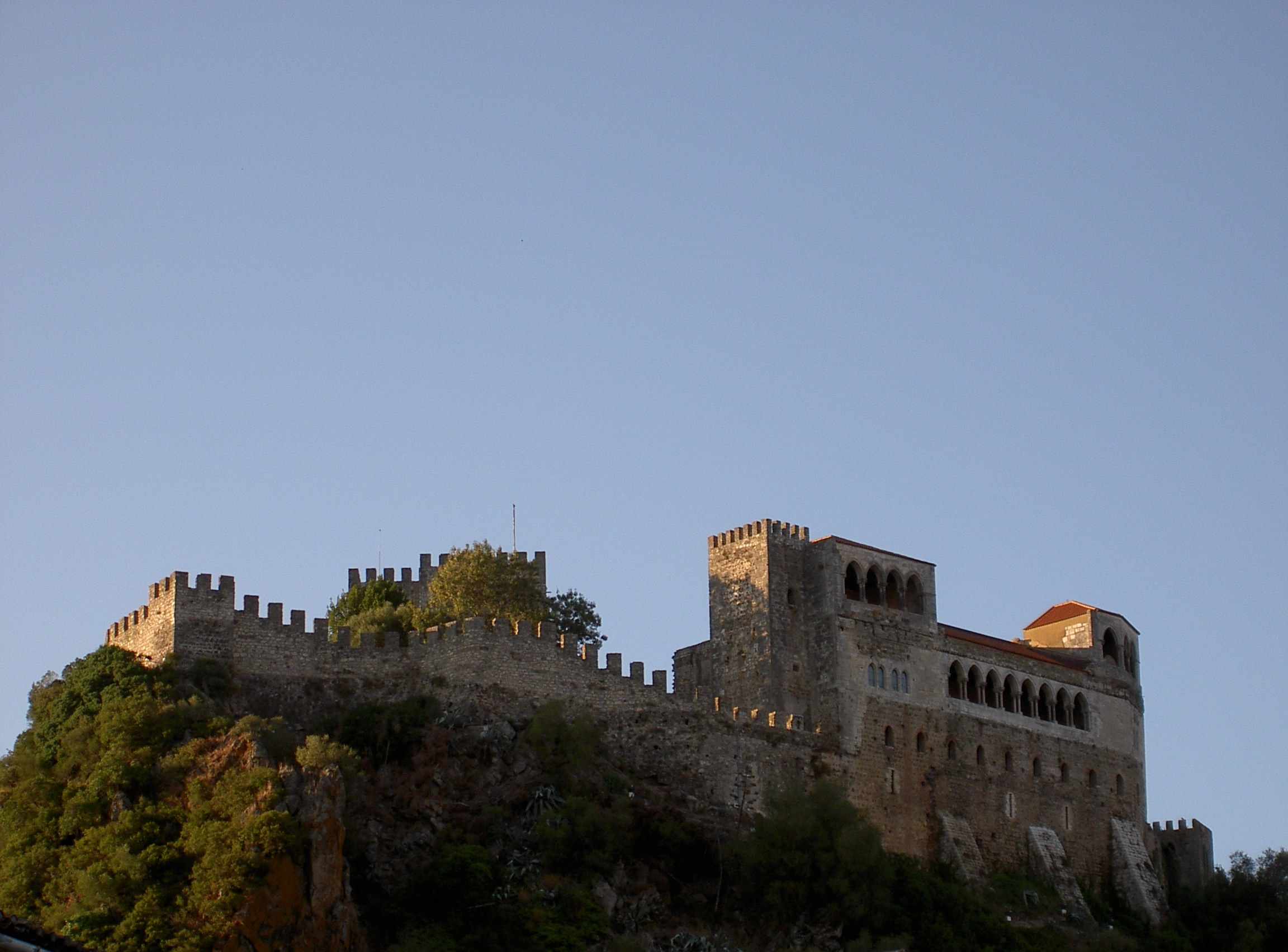 View of the Castle in Leiria, Portugal